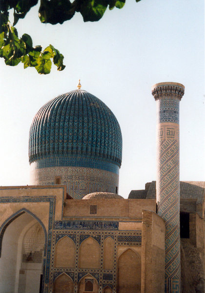 Samarkand (Uzbekistan) : Gur-Imir Mausoleum